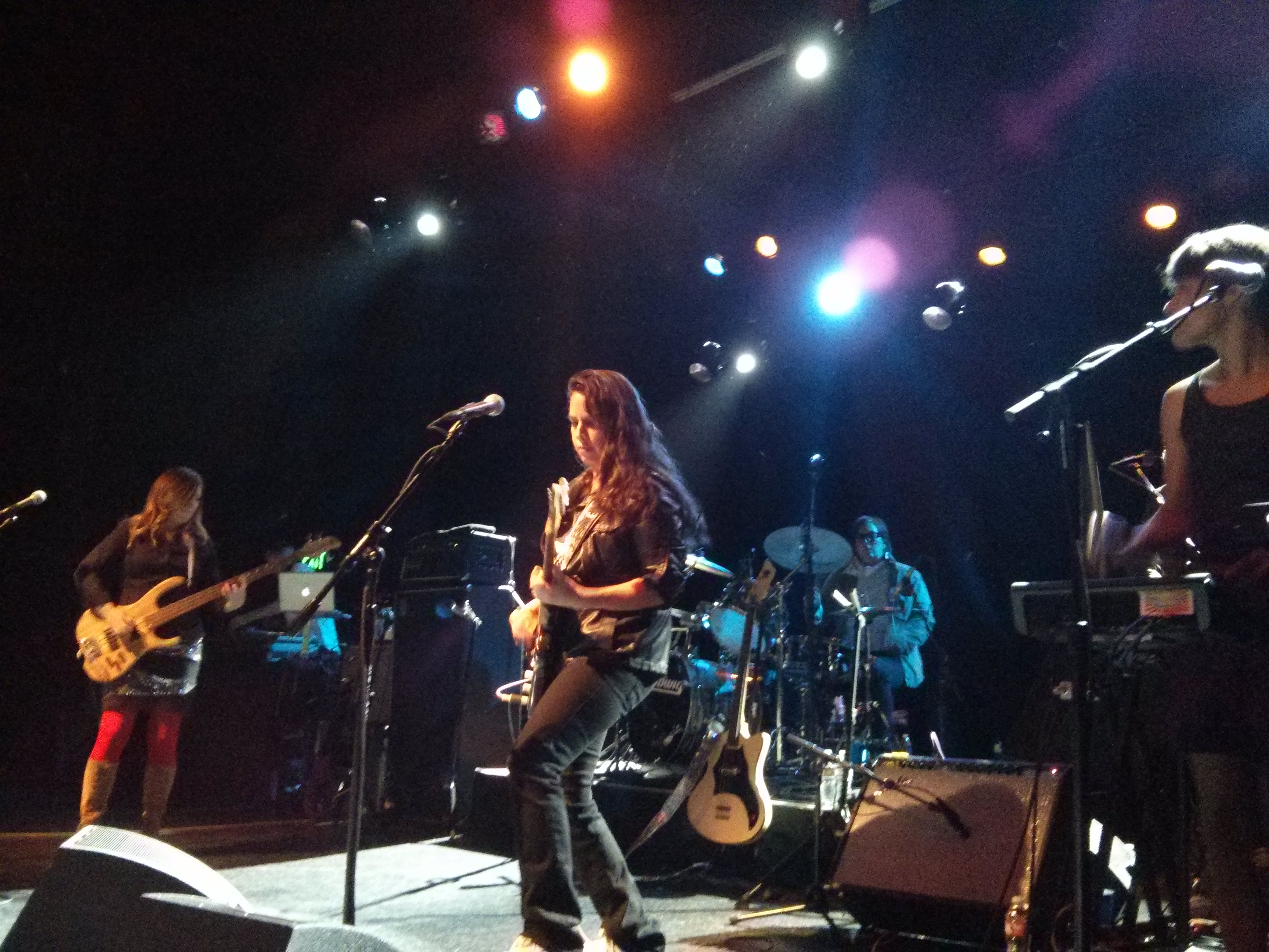 Luscious Jackson performing at The Miracle Mile in Los Angeles, 2014